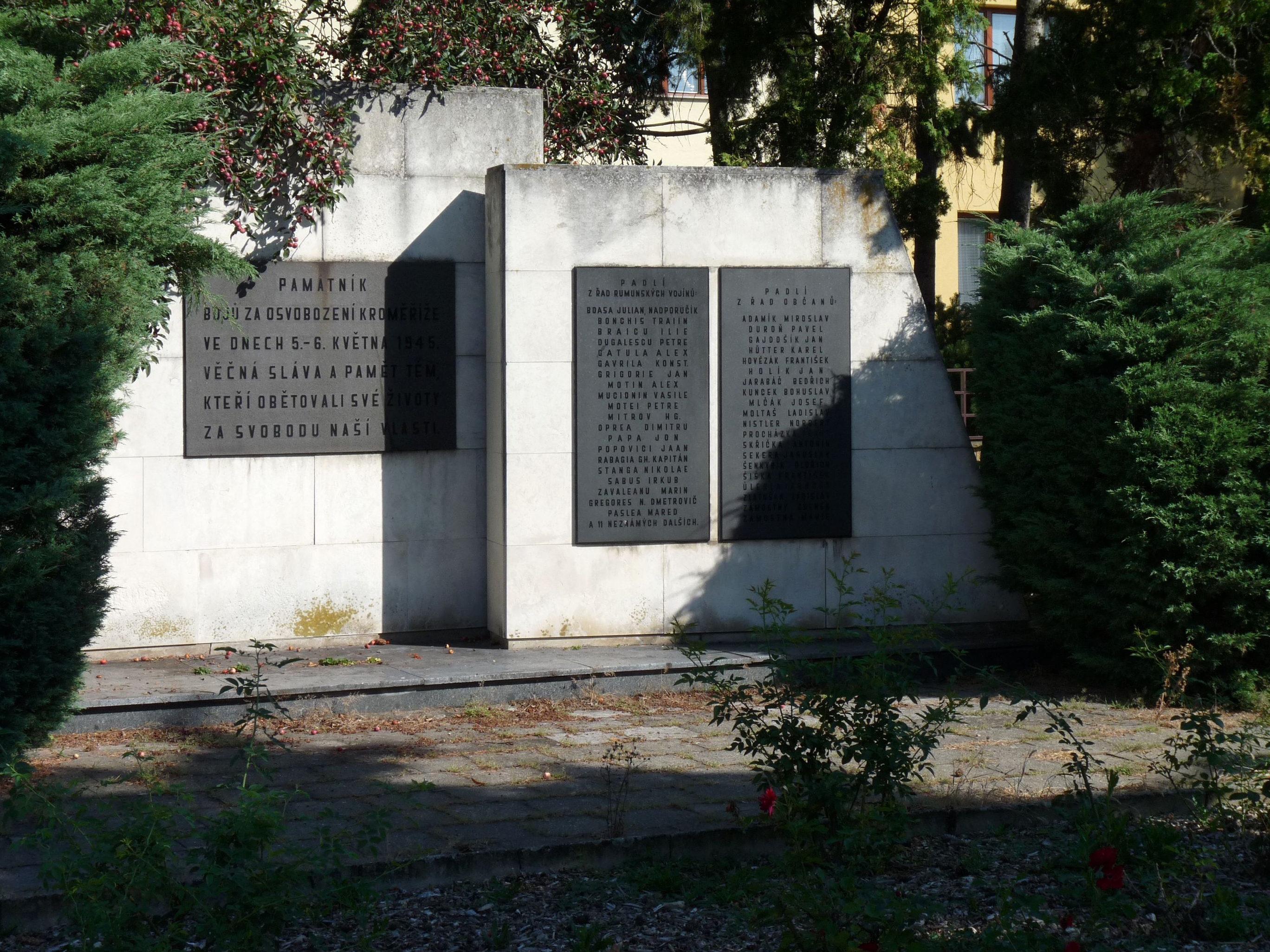 World War II memorial in the town of Kroměříž, Zlín Region, Czech Republic.